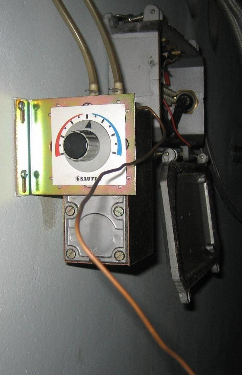 Bourdon thermometer